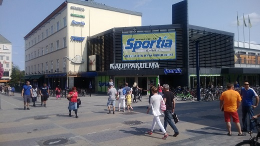 Commercial buildings in Kauppakatu street, Jyväskylä